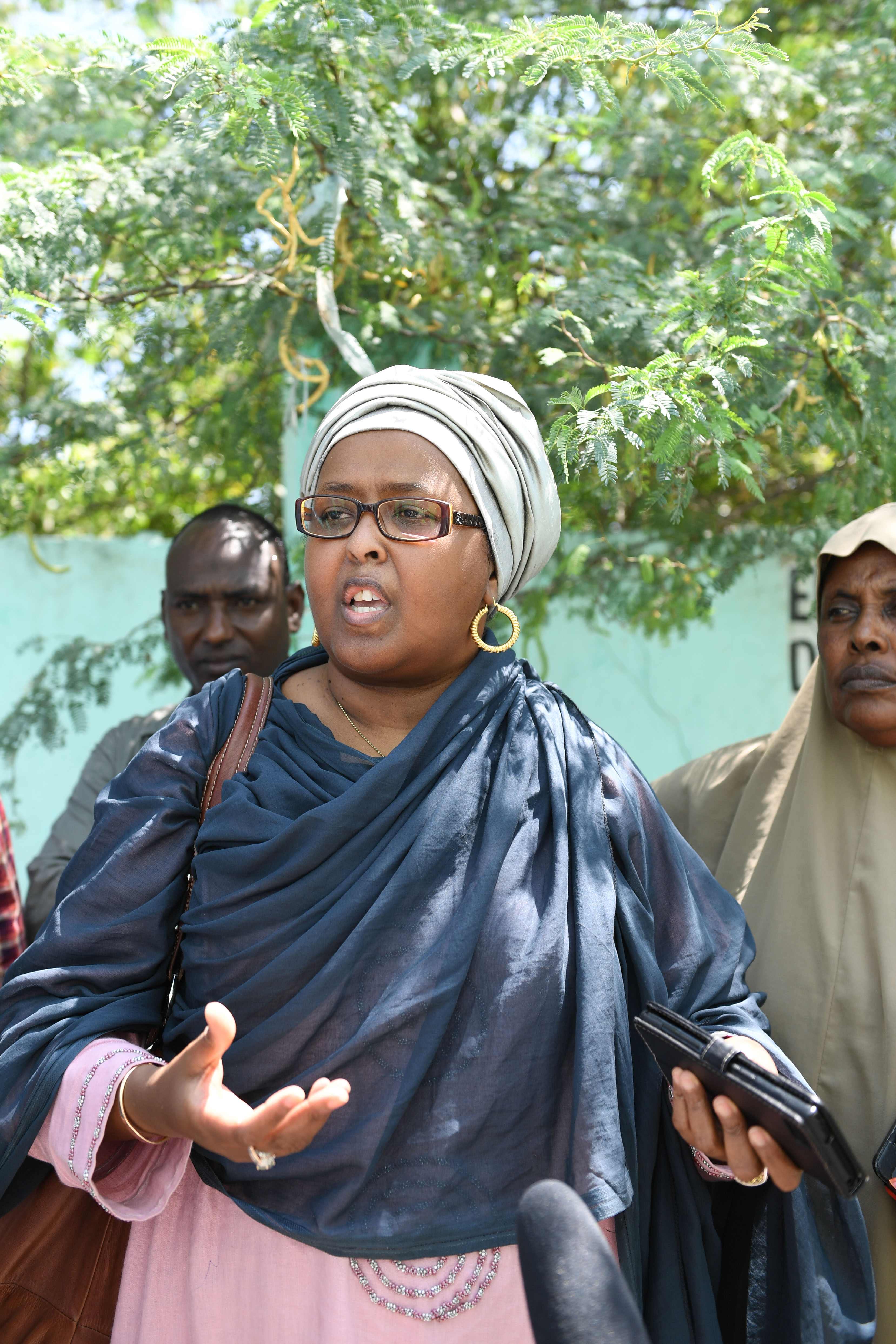 Deqa Yasin Hagi Yusuf, Somalia’s Minister of Women and Human Rights Development, speaks at a ceremony to announce the renovation of Qamar primary school, which will be rehabilitated by the African Union Mission in Somalia (AMISOM), in Mogadishu, Somalia on 24 November 2018. The School was named after Dr. Qamar Aden Ali, late Somalia's Health Minister, who was killed in a suicide attack at Shamo hotel in 2009, Mogadishu, Somalia to recognize her services. AMISOM Photo / Omar Abdisalan